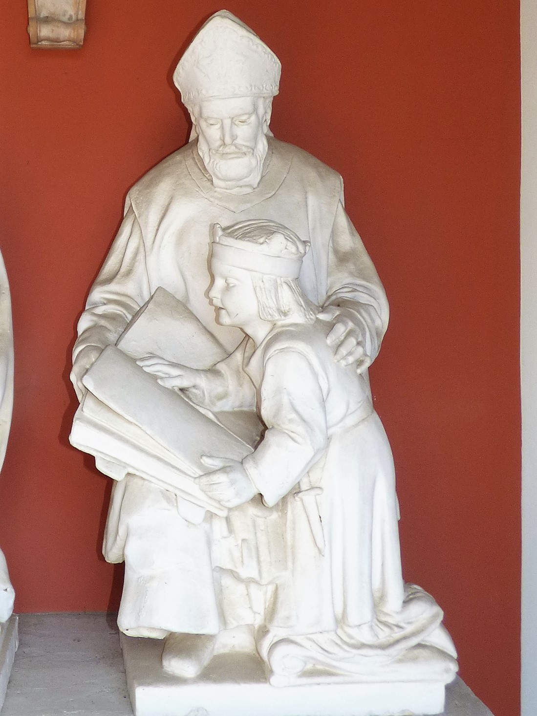 Boldog Mór püspök és Szent Imre szobra a Bory-várban, Bory Jenő alkotása